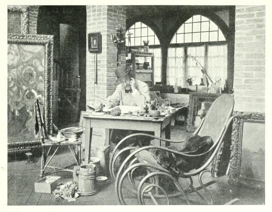 Gaston La Touche in his studio [Saint-Cloud], photo published in The Studio, issue 72, March 1899.